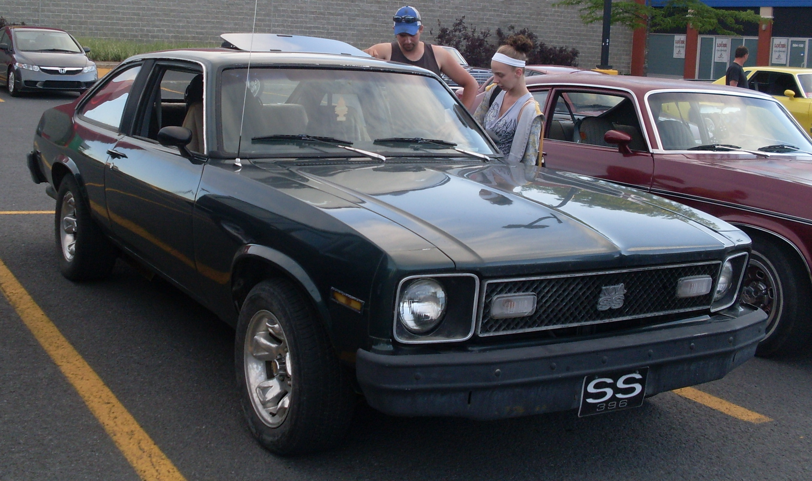 1976 Chevrolet Nova SS photographed in St. Constant, Quebec, Canada at Auto classique St-Constant 2013.